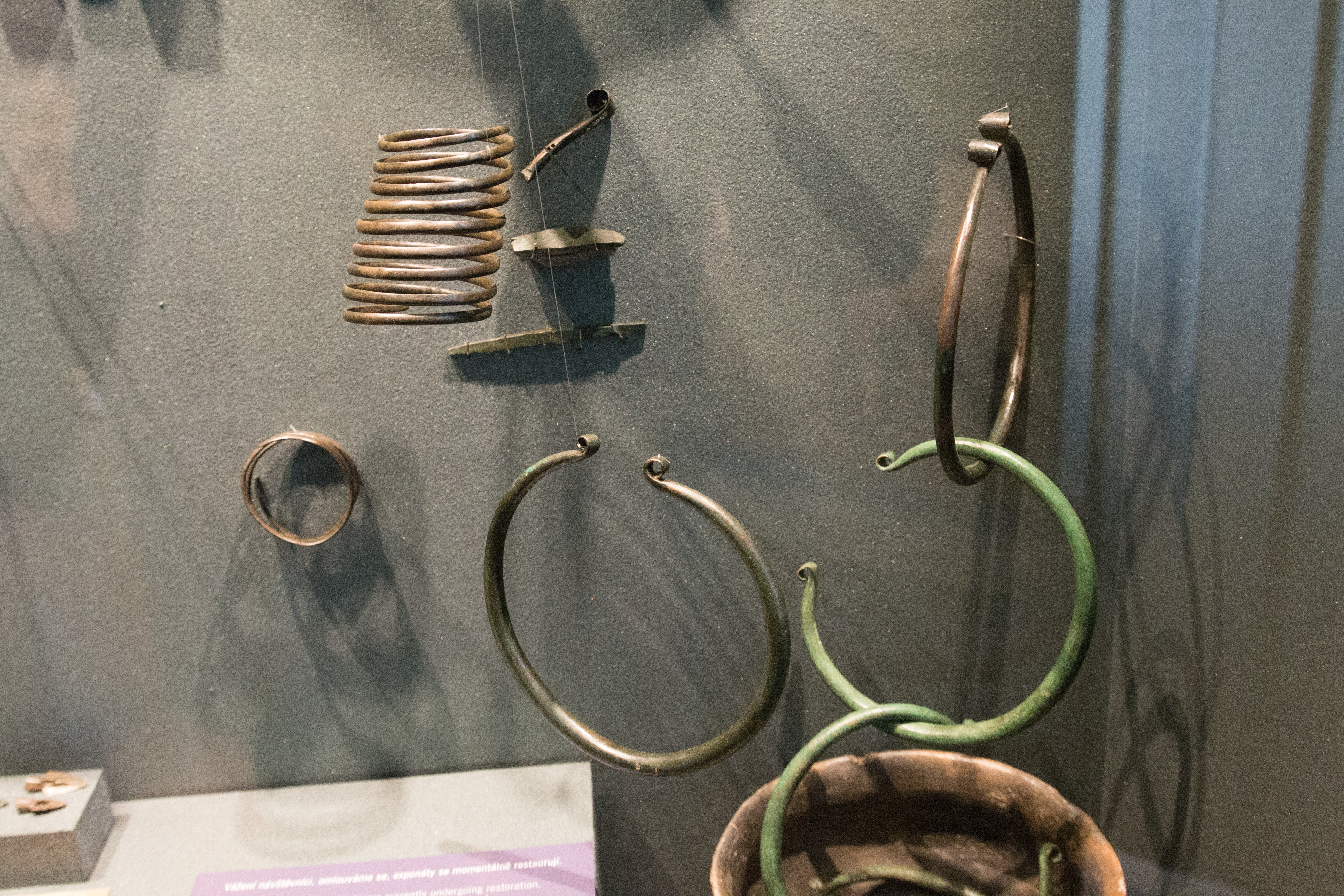 The bronze ingots, bracelets and fragments found in an Early Bronze Age Únětice culture vessel at Praha Bubeneč. The City of Prague Museum.